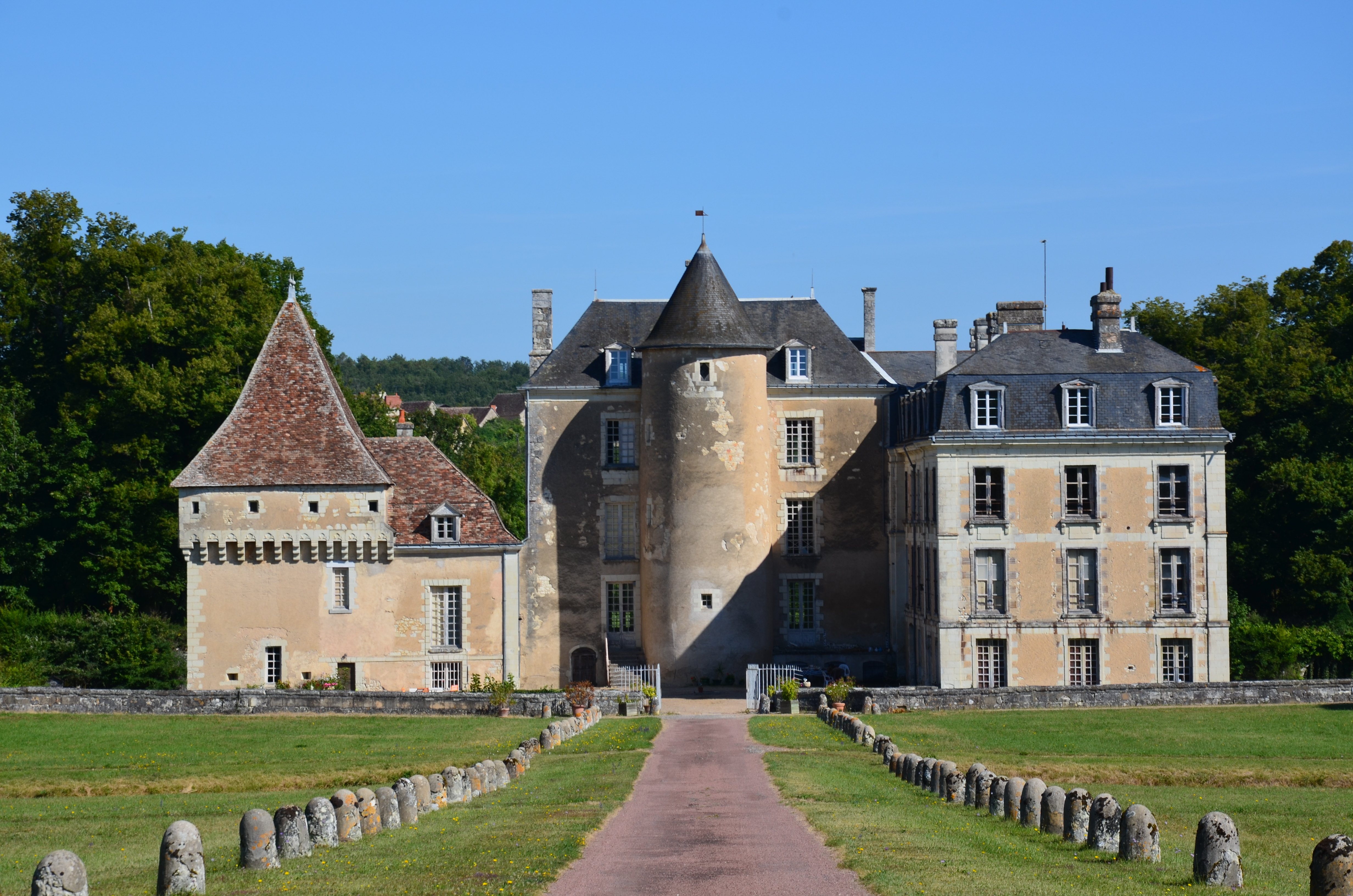 The Château de Boussay (France).